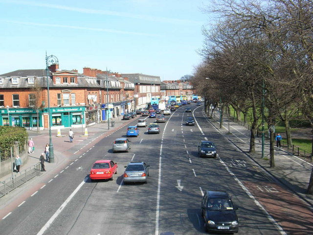 Fairview Fairview pictured from the pedestrian bridge